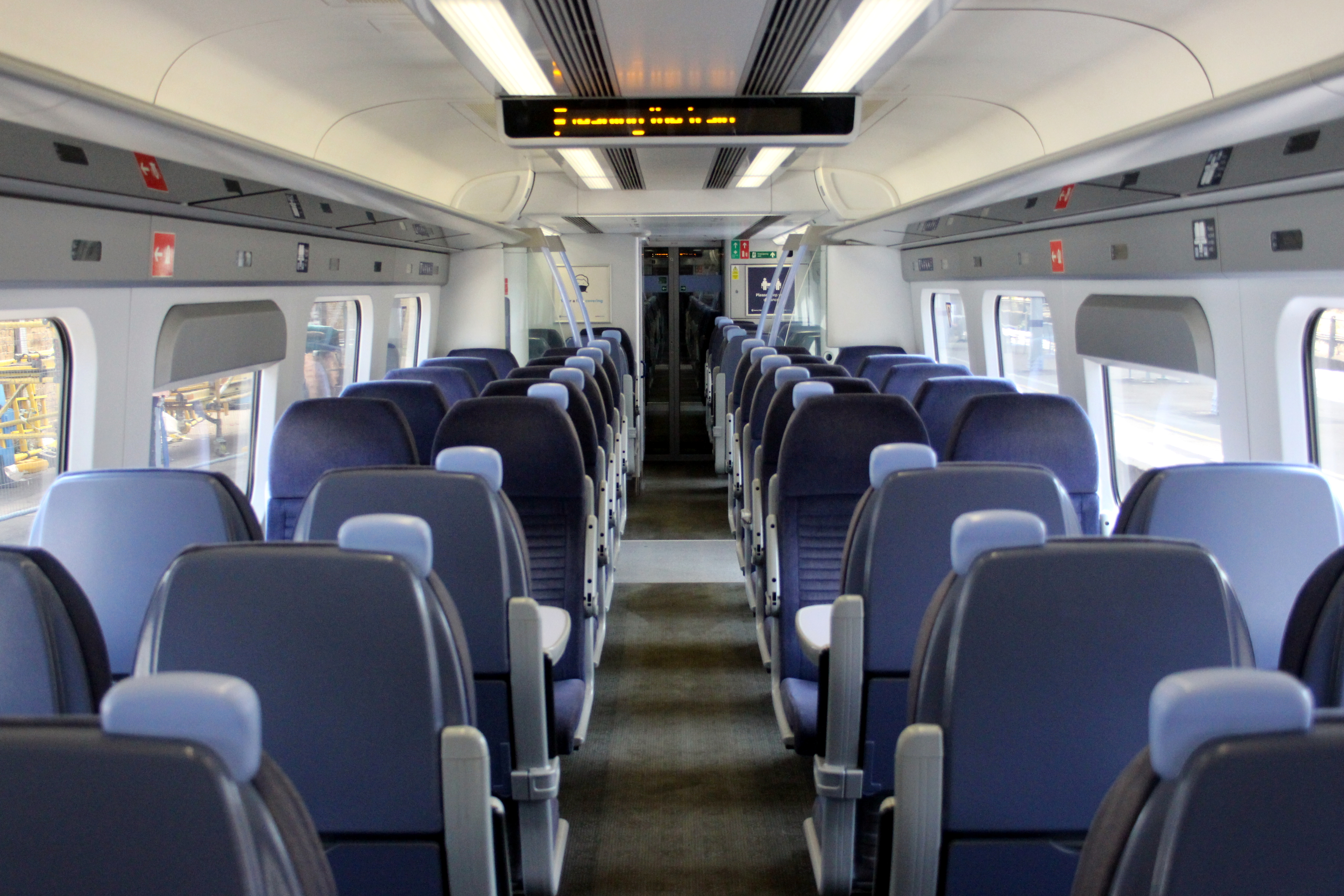 The interior of a Southeastern Class 395 high-speed electric unit.